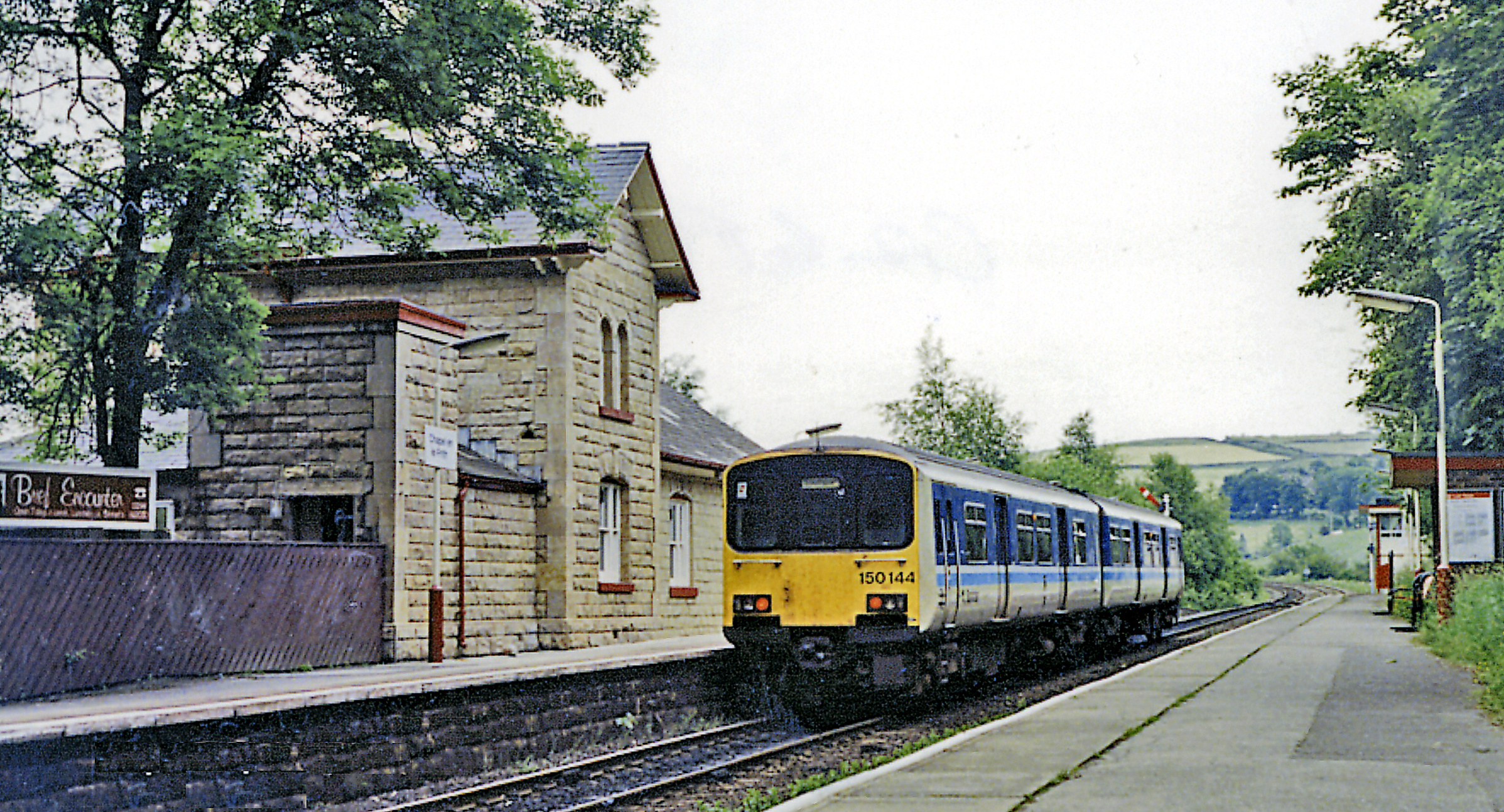 Chapel-en-le-Frith (South) station, with DMU, 1992. View eastward, towards Buxton: ex-LNW Manchester - Stockport - Buxton line. A Class 150 DMU is on a Manchester Piccadilly - Buxton service.